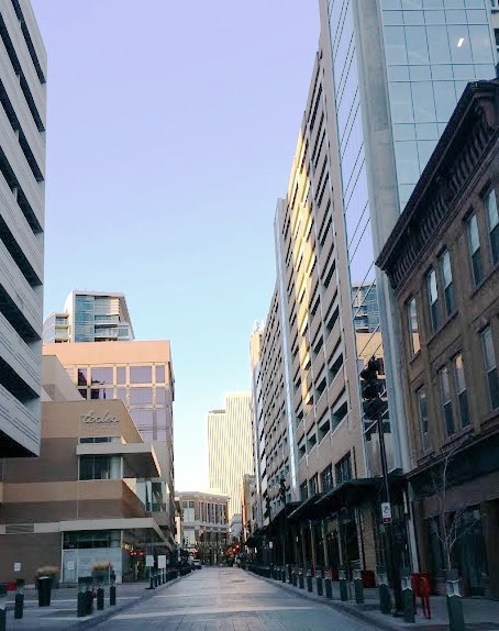 Looking north on Regent Street (formerly Commercial St). In the late 1800s the street used to house many of Salt Lake's brothels, some of which rented property from the LDS Church.